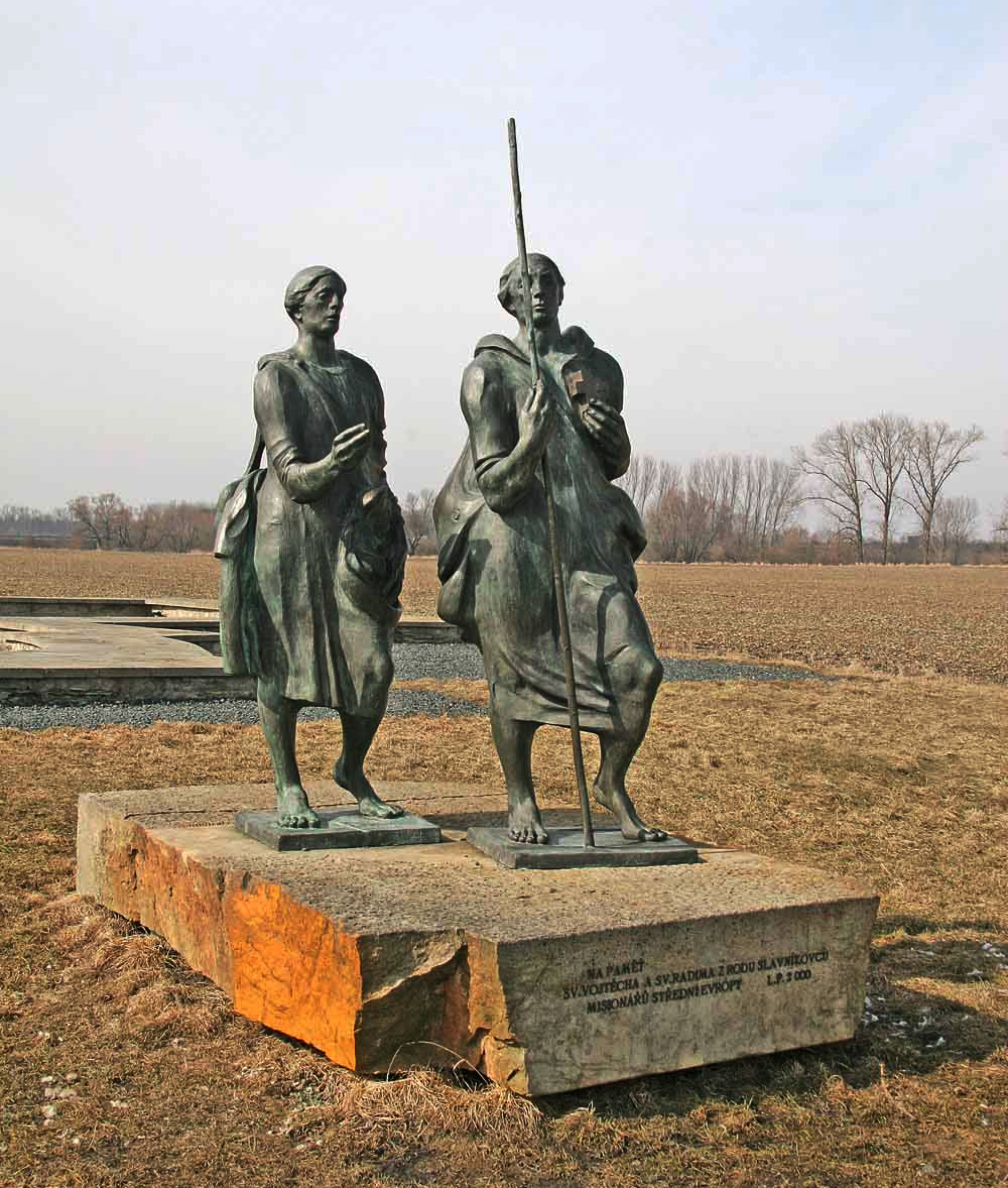 St.Adalbert (Vojtech) and Gaudentius (Radim) monument (Libice, Czechia)